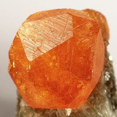 Muscovite, Spessartine Locality: Loliando, Tanzania Size: miniature, 4.2 x 2.7 x 2.1 cm Spessartine Garnet on Muscovite Despite the vast flood of inferior quality garnets that came out of this place recently, it is still true that sharp, pristine, crystals of good color and size are not as common aspeople think. Most of the best crystals came out in the beginning and wha tis available now , if seen in person, is simply not as gemmy, colorful, and pristine of bruises as what we saw at the recent shows. And, after 8 months now of production, the finest quality sharp orange garnets in matrix remain VERY rare. I ahve seen many almost-rans, but this one is among the best matrix pieces I have had now for overall quality. The color is intense,m the form perfect, and it has no damage at all. The crystal is almost 2 cm tall, and looks like a glowing orange carving on its perch of sparkling muscovite.